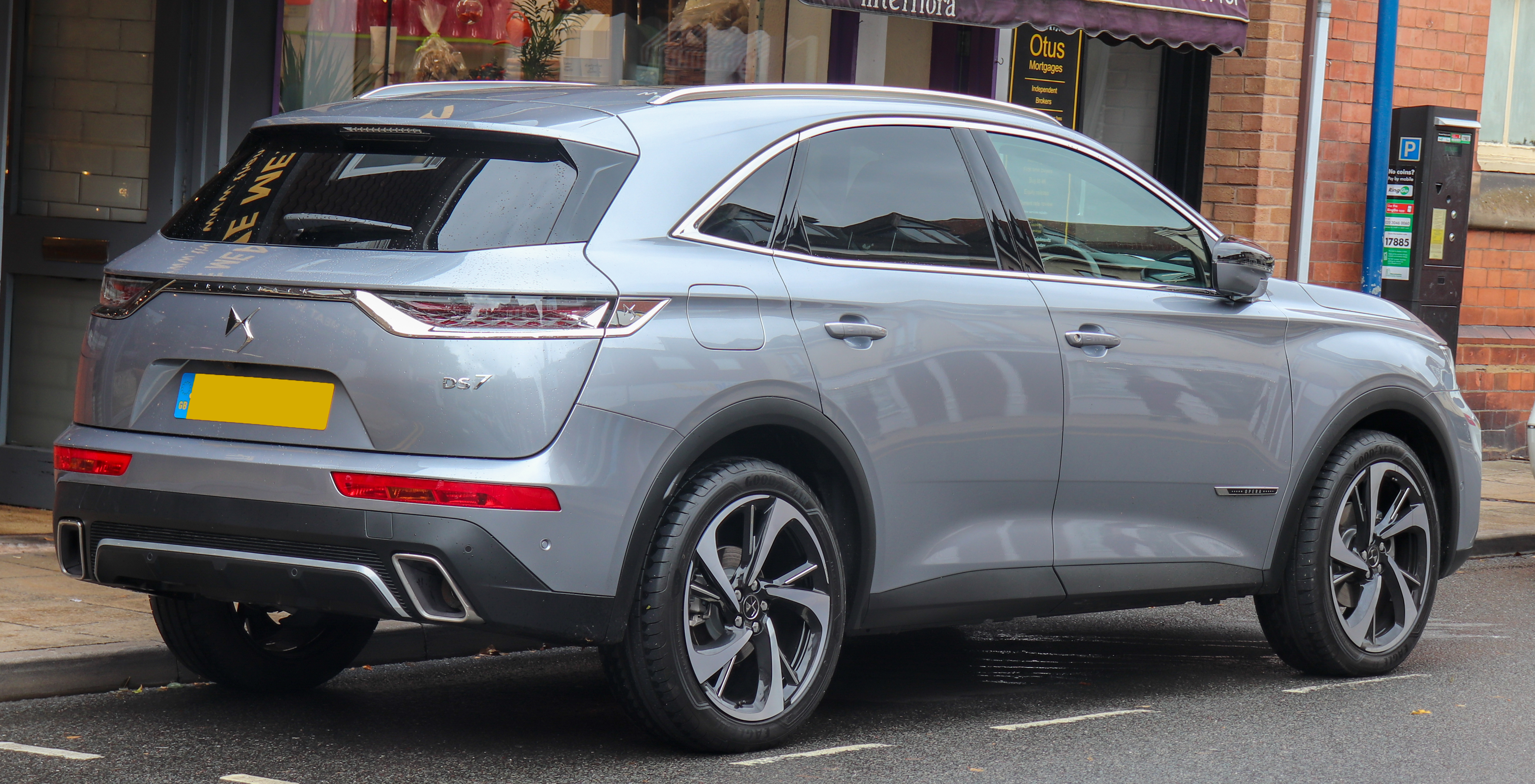 2018 DS 7 Crossback Ultra Prestige PTC 1.6 Rear Taken in Warwick